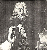 Richard Edgcumbe, 1st Baron Edgcumbe (1680-1758)